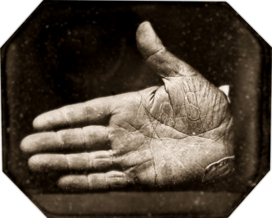 The Branded Hand of Captain Jonathan Walker sixth-plate by Southworth and Hawes, 1845. The inscription on the back of the case reads: "This Daguerreotype was taken by Southworth Aug. 1845 it is a copy of Captain Jonathan Walker's hand as branded by the U.S. Marshall of the Dist. of Florida for having helped 7 men to obtain 'Life Liberty, and Happiness.' SS Slave Saviour Northern Dist. SS Slave Stealer Southern Dist."